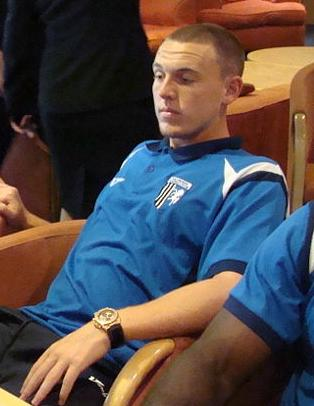 Cropped from :Image:Sean Clohessy.JPG